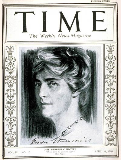 Lou Henry Hoover on Time magazine cover, 1924.